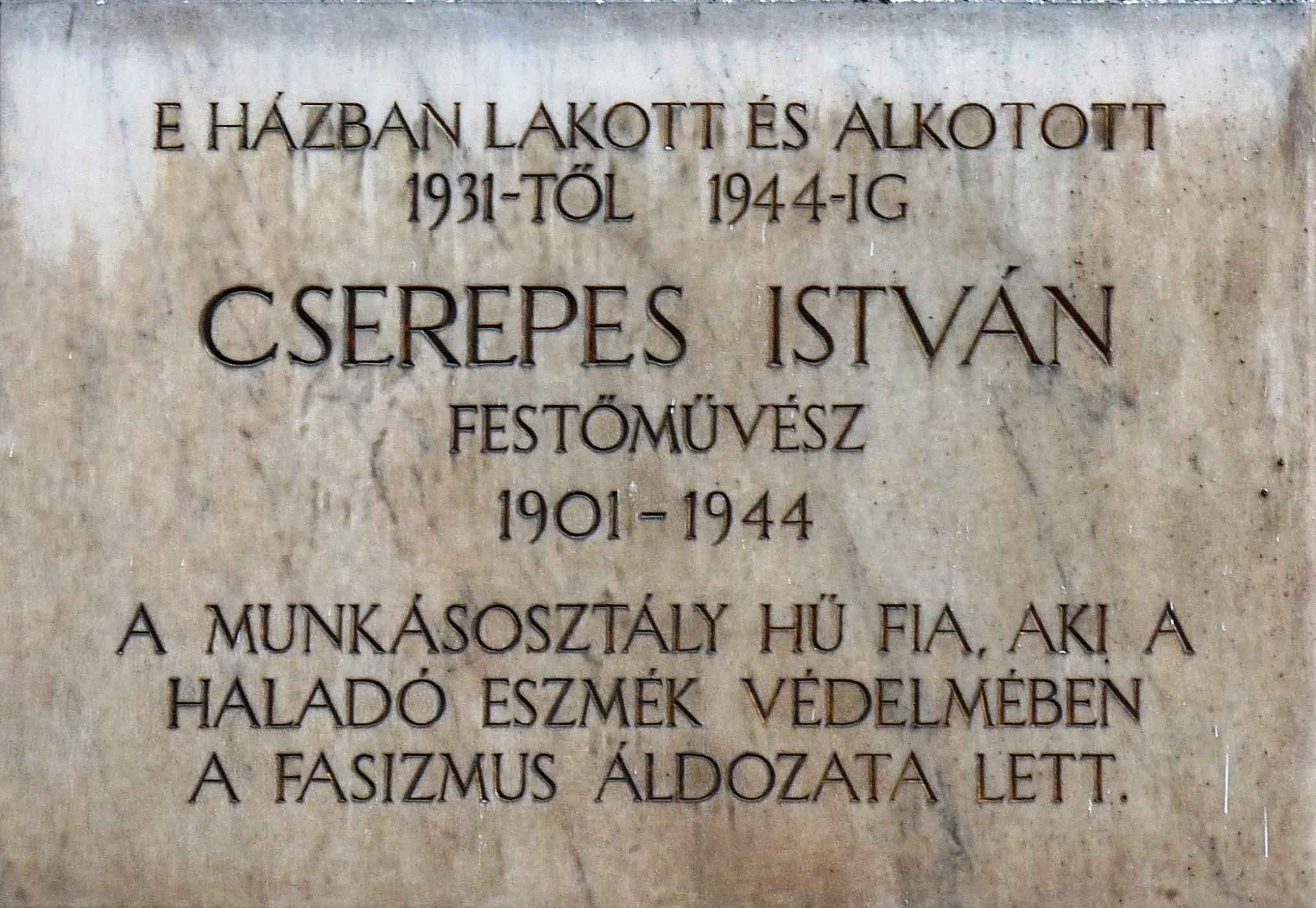 István Cserepes commemorative plaque in Budapest District VIII, József Street No 37.